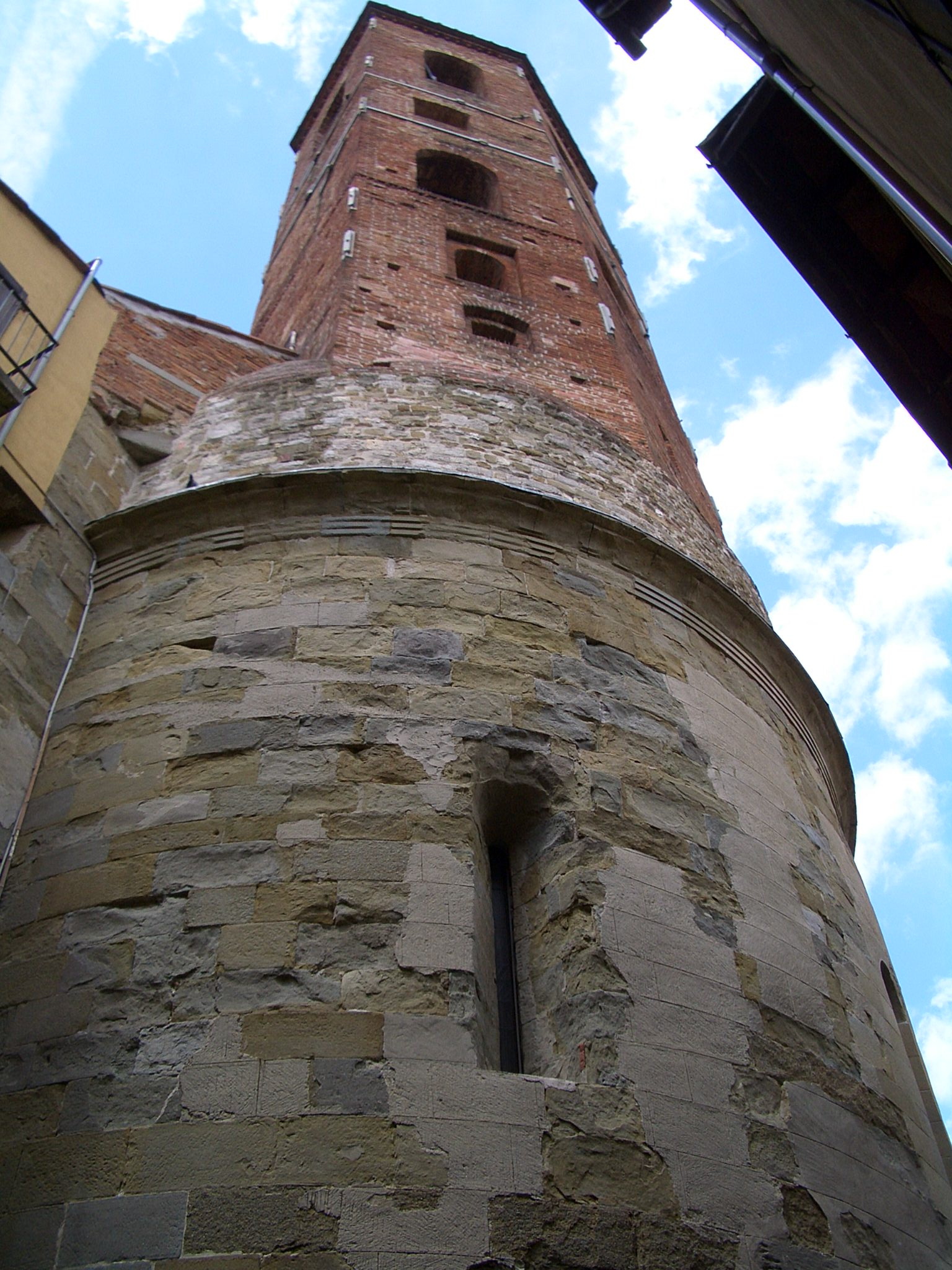 The tower of a church in the center of Borgo San Lorenzo, Tuscany